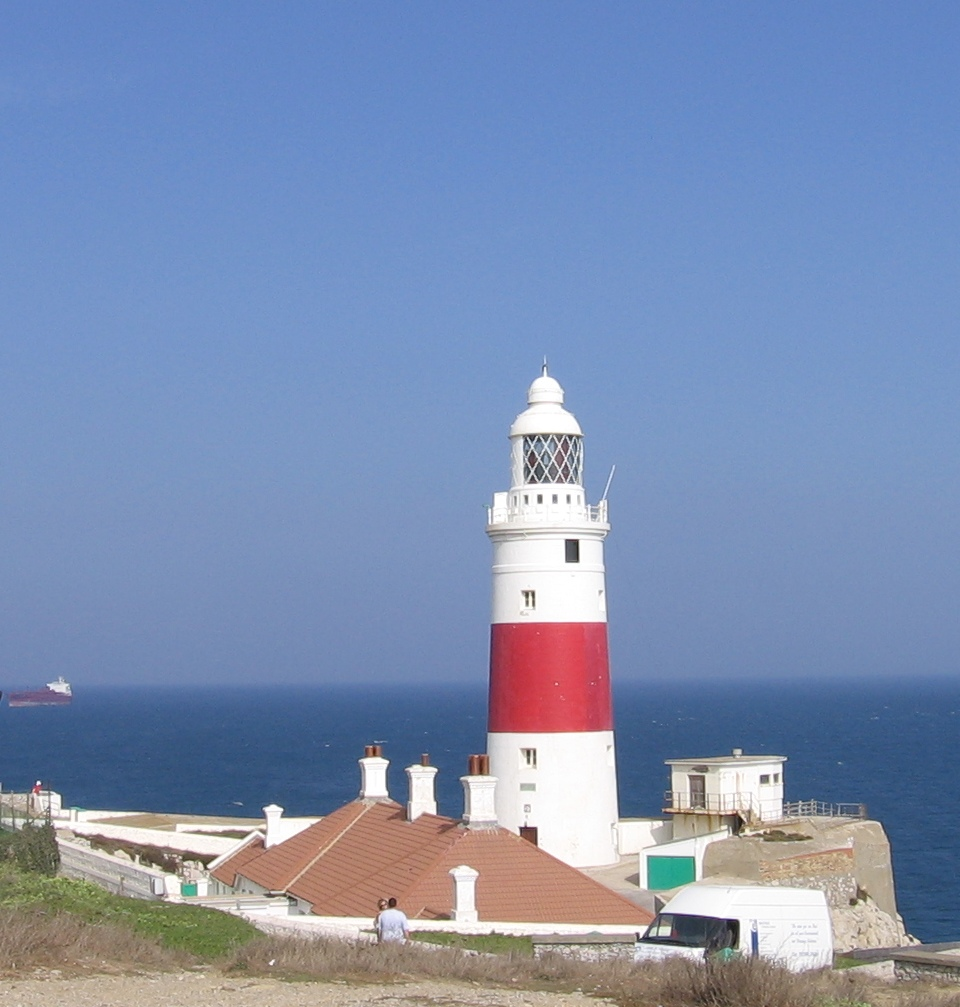 Gibraltar, Last Point of Europe - the lighthouse